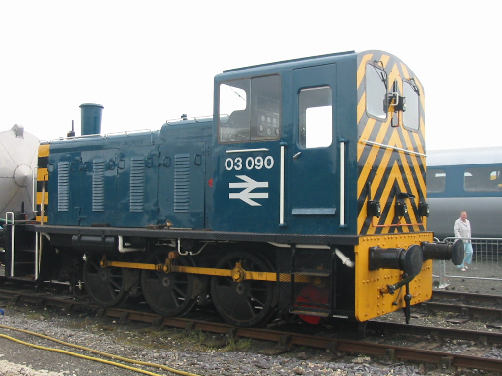 British Rail Class 03 diesel shunter 03090 at the Rail200 Railfest at the National Railway Museum in York